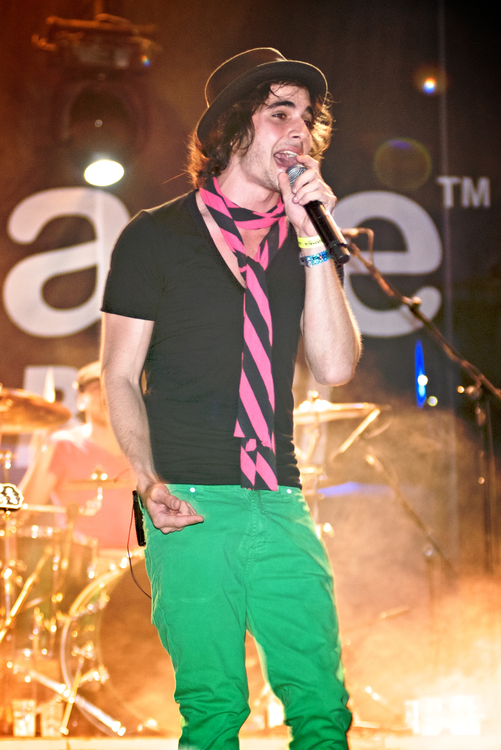 Hóri in Maquinária Festival, occurred in November 8 2009 at São Paulo, Brazil.